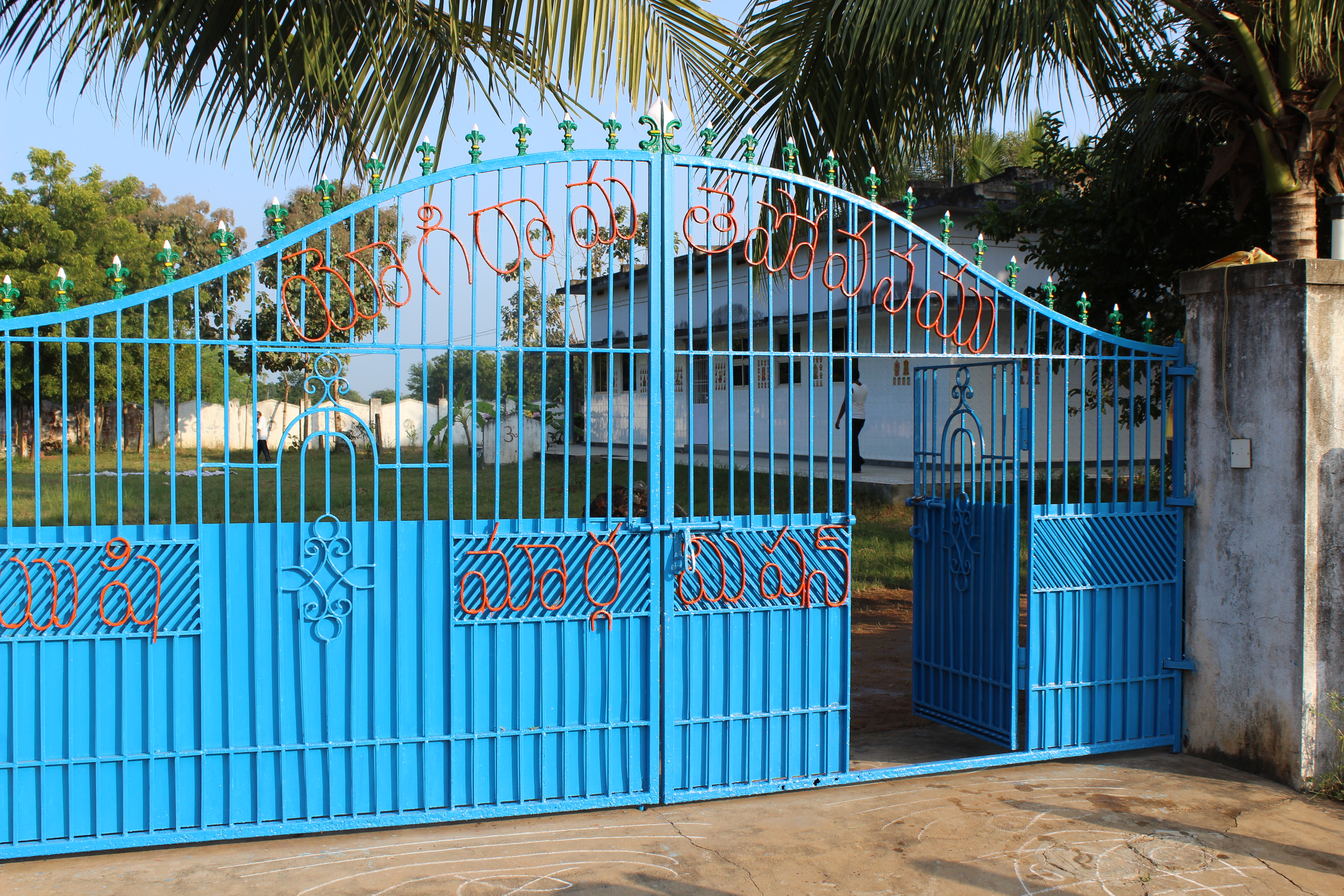 Yogi Ramaiah Asramam Gate, Anna Reddy Palem, Nellore Dist